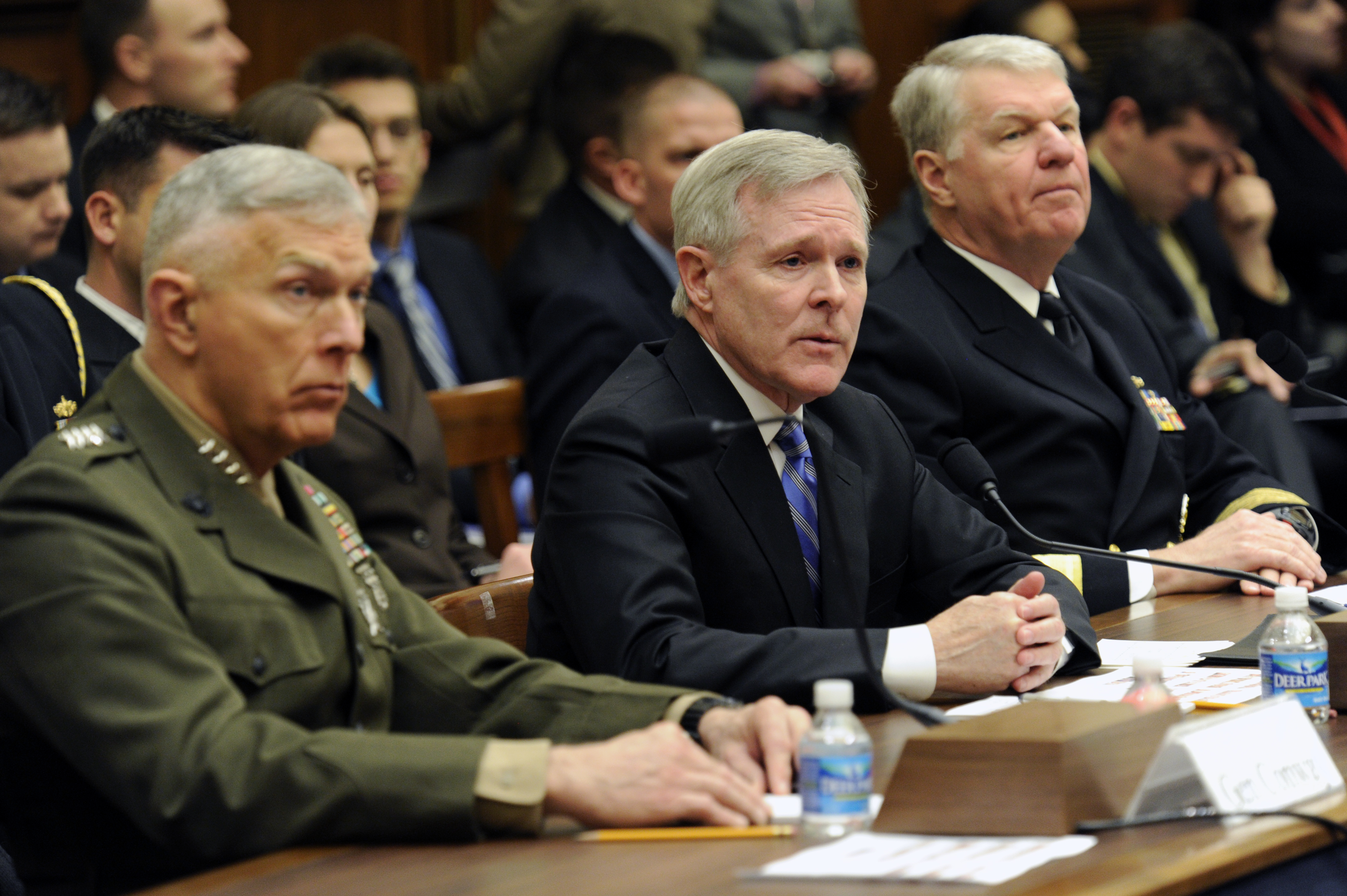 WASHINGTON (Feb. 24, 2010) Commandant of the Marine Corps Gen. James T. Conway, left, Secretary of the Navy (SECNAV) the Honorable Ray Mabus and Chief of Naval Operations (CNO) Adm. Gary Roughead testify before the House Armed Service Committee concerning the 2011National Defense Budget. (U.S. Navy photo by Mass Communication Specialist 2nd Class Kevin S. O'Brien/Released)